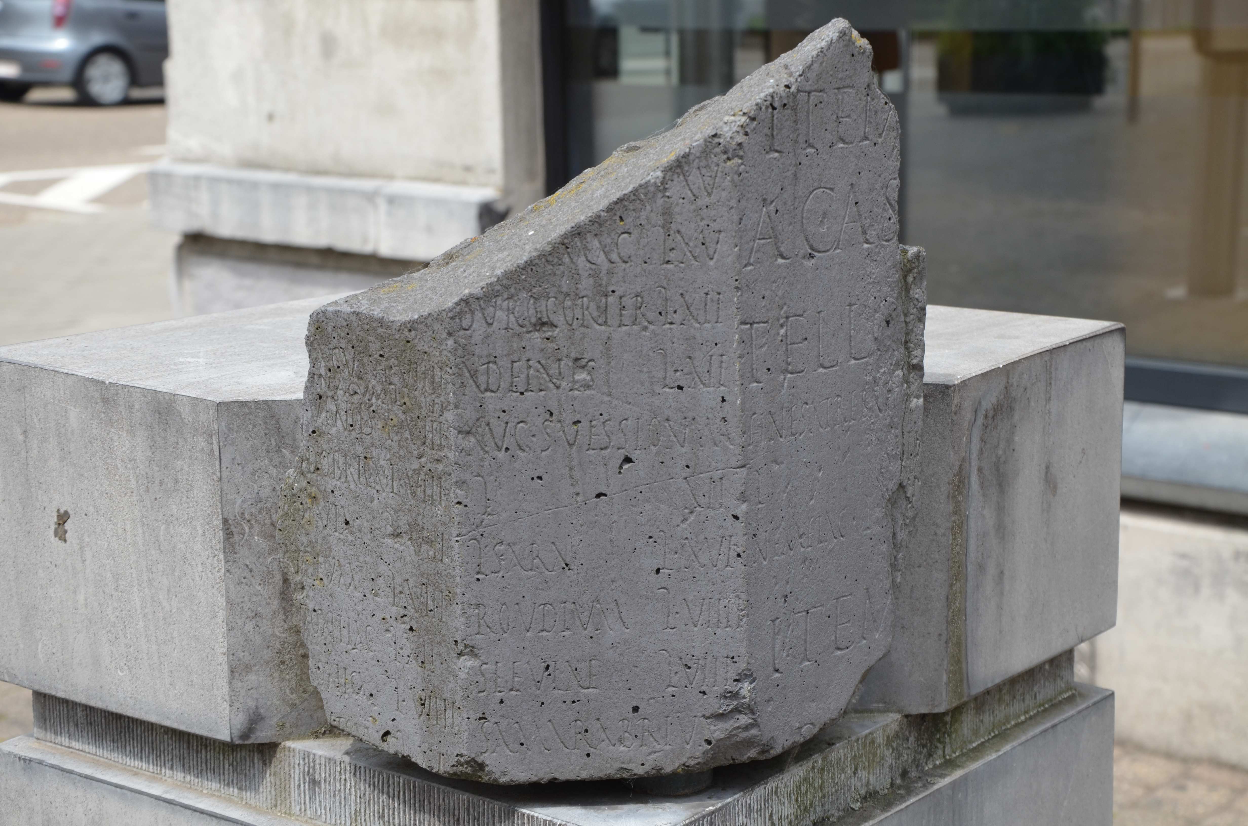 Copy of an ancient Roman milarium in Tongeren, Belgium.